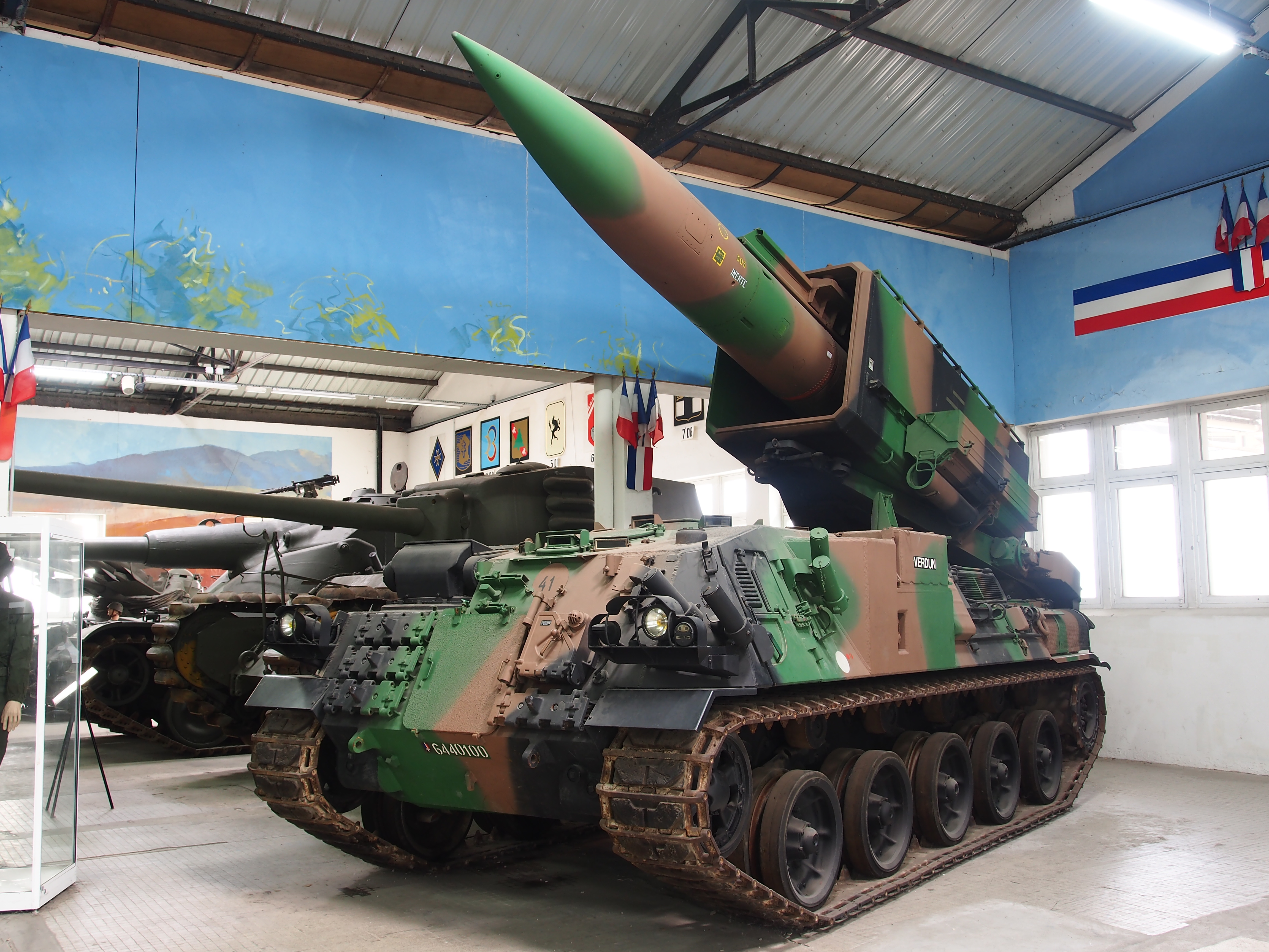 Photographed in the Musée des Blindés, France.